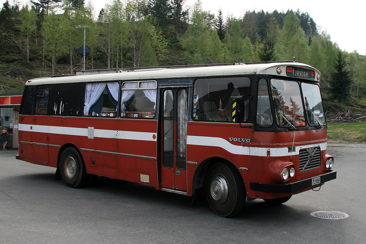 T. Knudsen bodied Volvo B54-47 camper bus in Gjerstad.